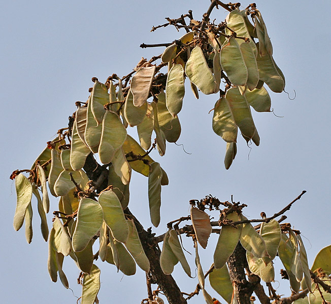 Butea monosperma - Palash, Dhak, Flame of the Forest, Bengal kino, Bastartd teak, Tesu, Kesu, Parrot Tree or Khakharo/ Keshudo in Mahavir Harina Vanasthali National Park, Hyderabad, India.